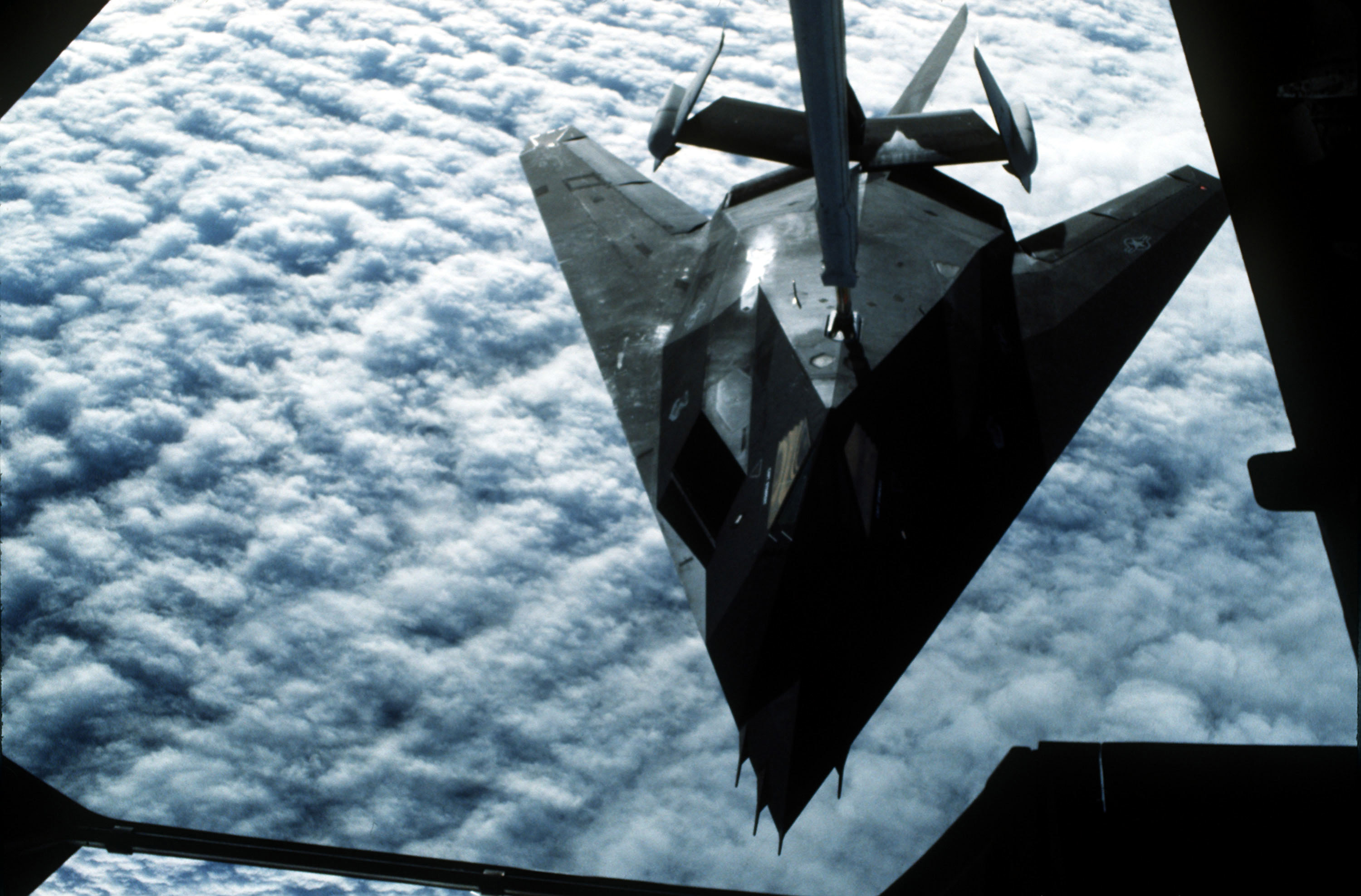 1990's -- A 37th Tactical Fighter Wing F-117A stealth fighter aircraft refuels from a 22nd Air Refueling Wing KC-10 Extender aircraft during Operation Desert Shield. The F-117A is en route to Saudi Arabia.